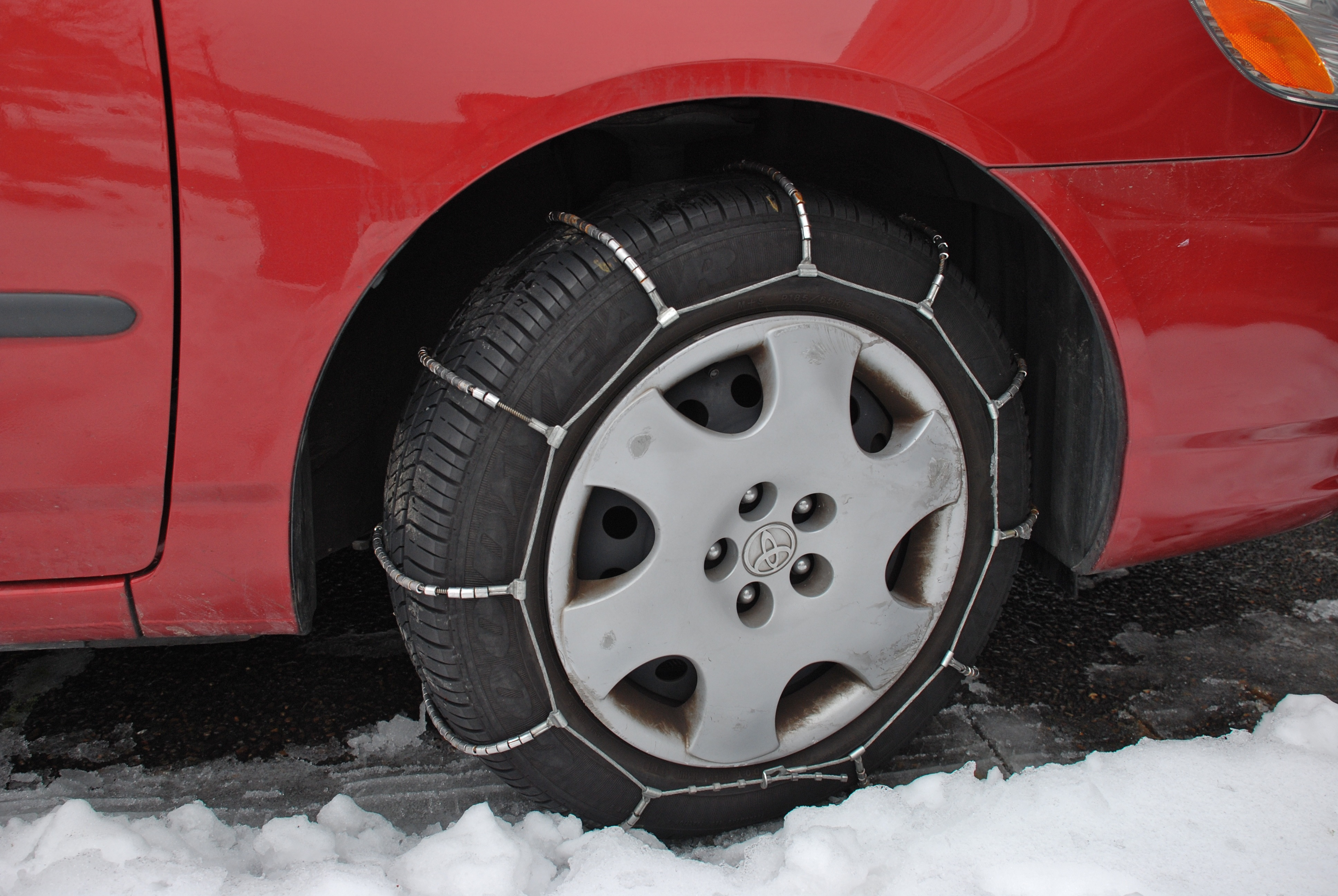 Cable chains on a car tire. (The car here is a Toyota Corolla, which has front-wheel drive, and the photo was taken in Portland, Oregon.)